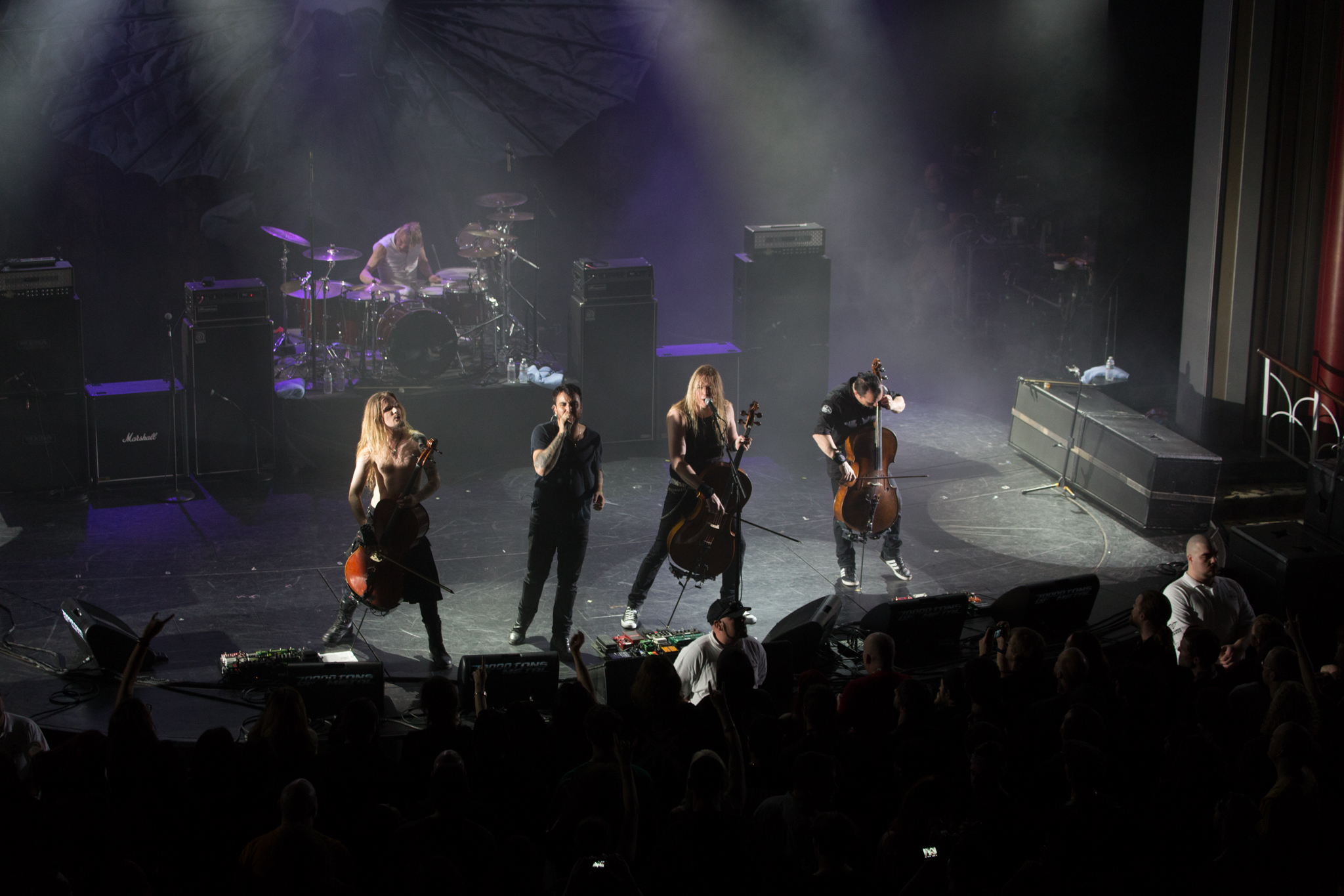 Apocalyptica performing at 70.000 tons of metal, january 2015